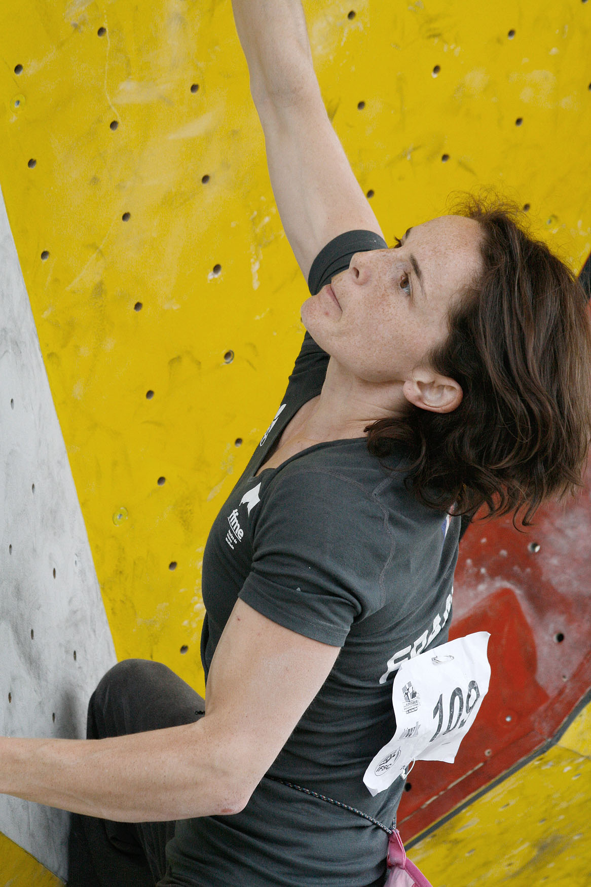 Cécile Avezou during the semi-finals at the IFSC Boulder Worldcup Vienna 2010.